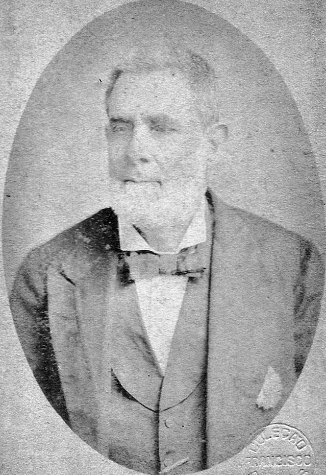 Antonio de Souza Leão [Barão de Morenos – Engenho Morenos, Jaboatão, PE.]. (Col. Francisco Rodrigues; FR-3664) Alberto Henschel; Fundação Joaquim Nabuco; cropped and grayscaled